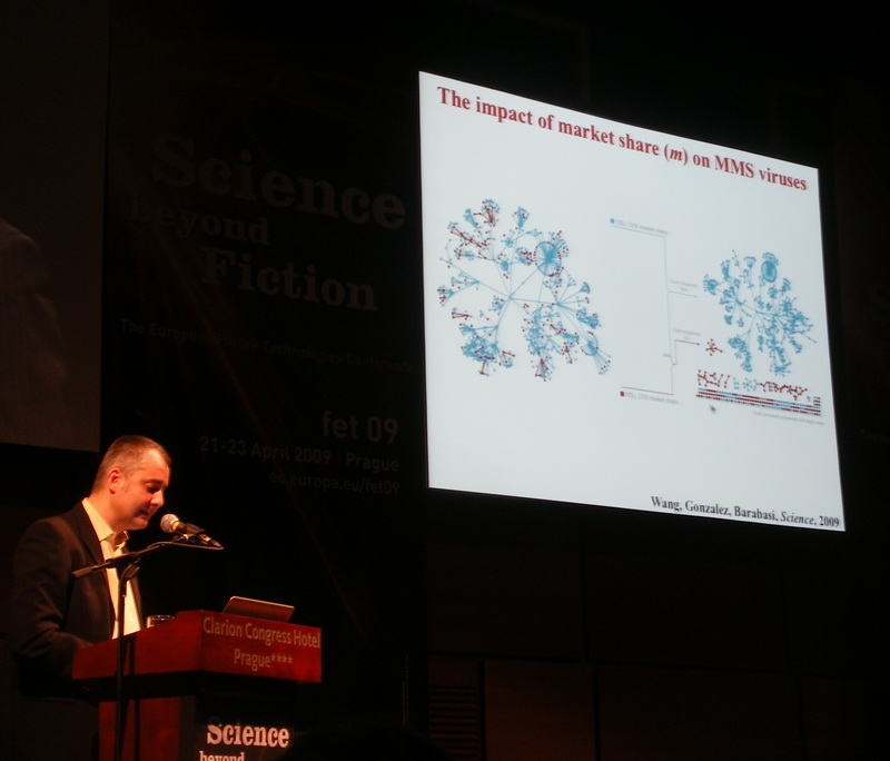 Why diversity of operating systems on smart phones is necessary: they block outbreaks on MMS-viruses.